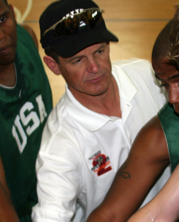 Bobby Lutz, University of North Carolina Charlotte head coach, has his teamput their hands together before breaking the huddle team during the Operation Hardwood II basketball tournament May 24 at Camp Arifjan.